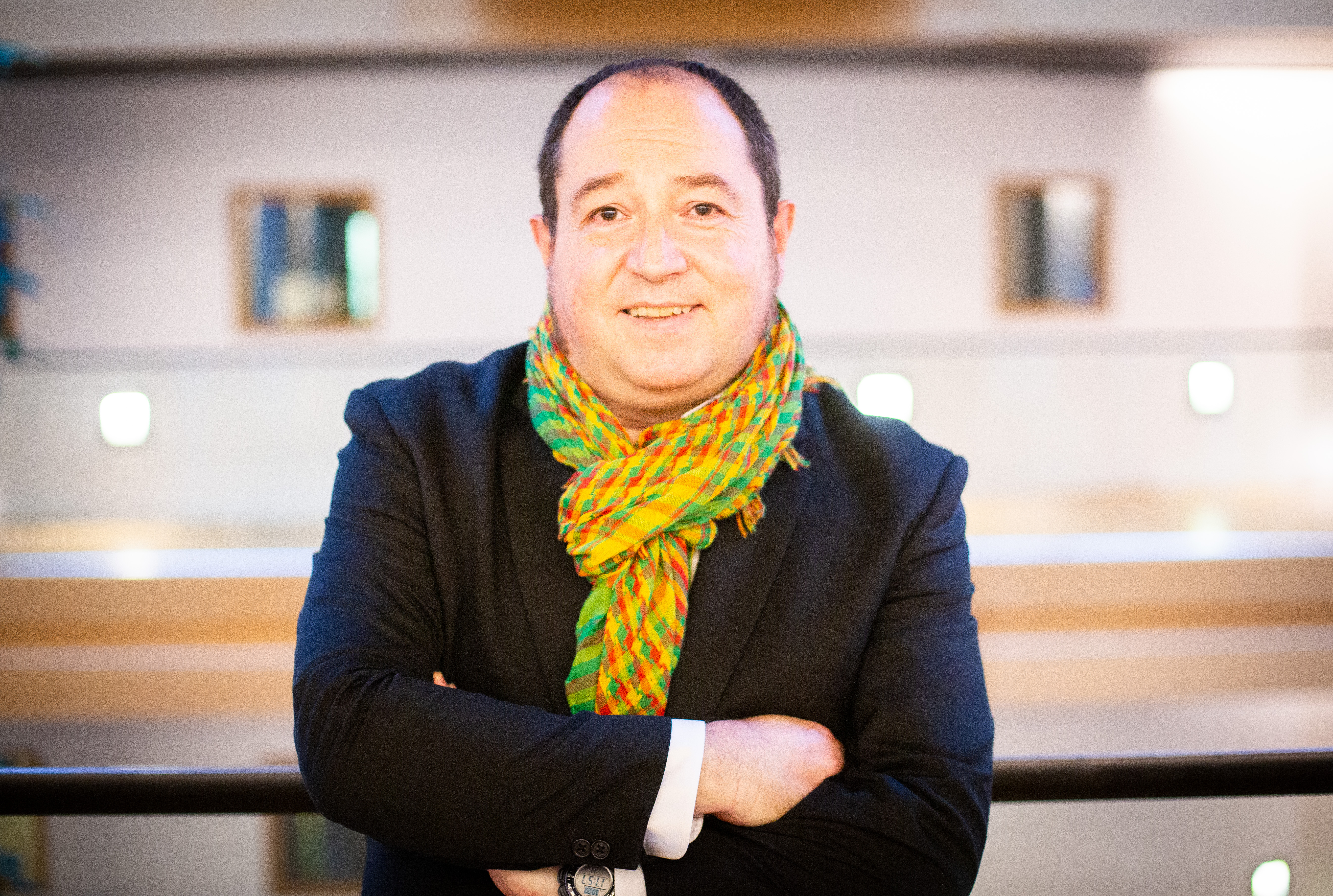 This week in #Eplenary our MEPs showed their solidarity with the Kurdish people #Rise4Rojava